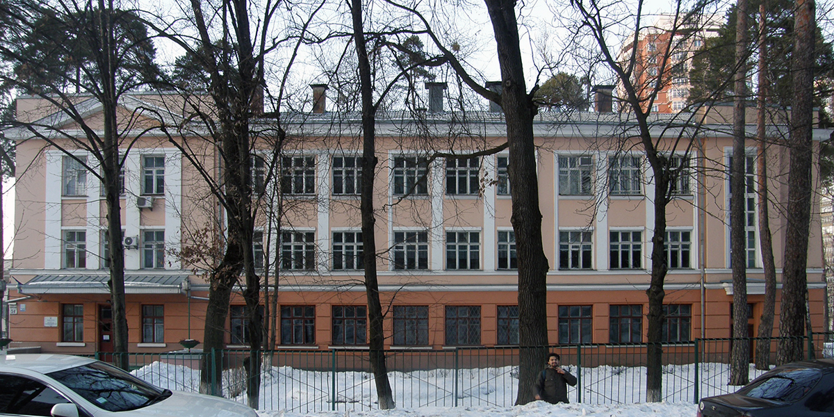 Former school building in 54 Pushynoi Street, Kyiv, Ukraine